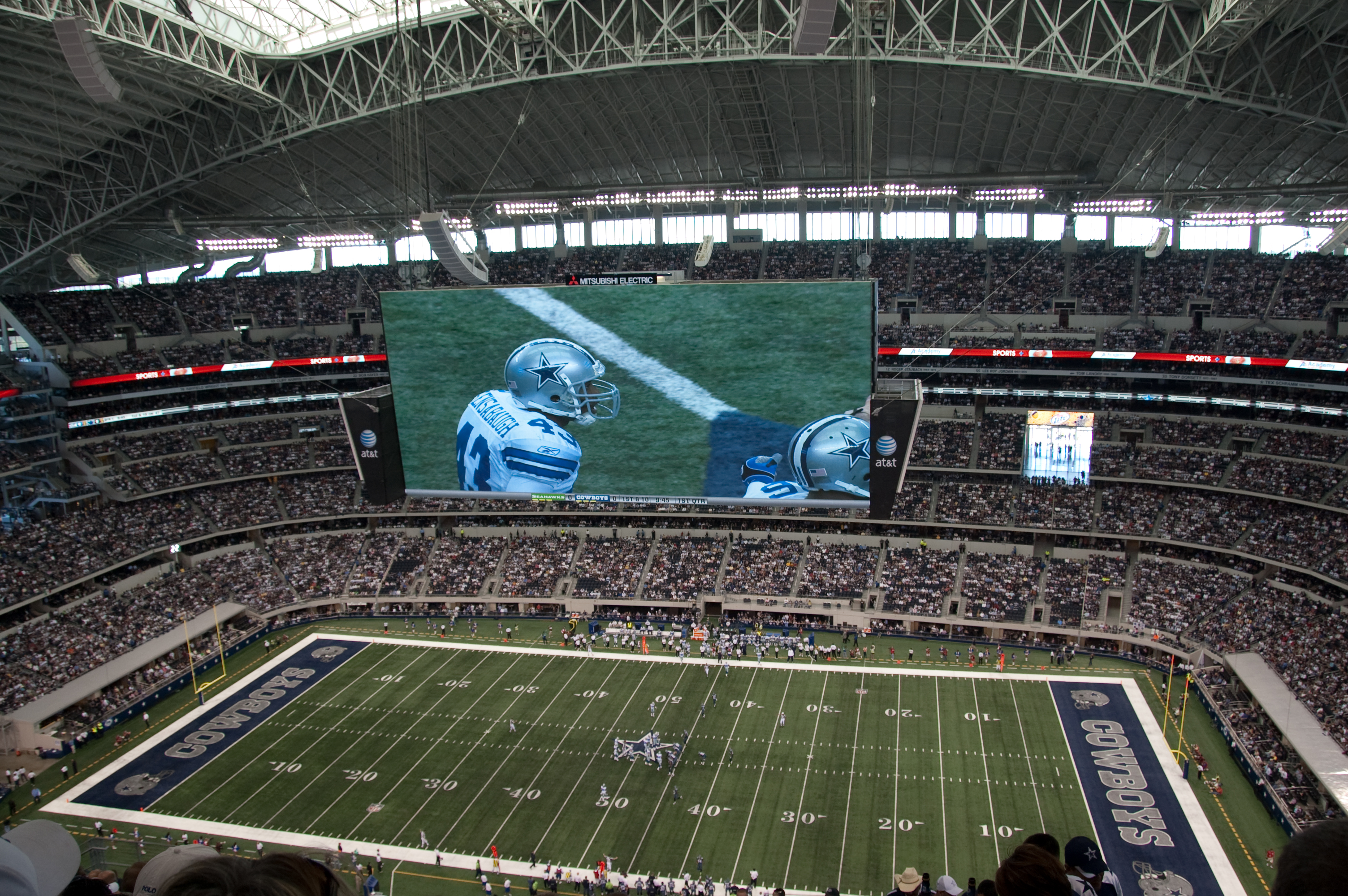 Dallas Cowboys 2009